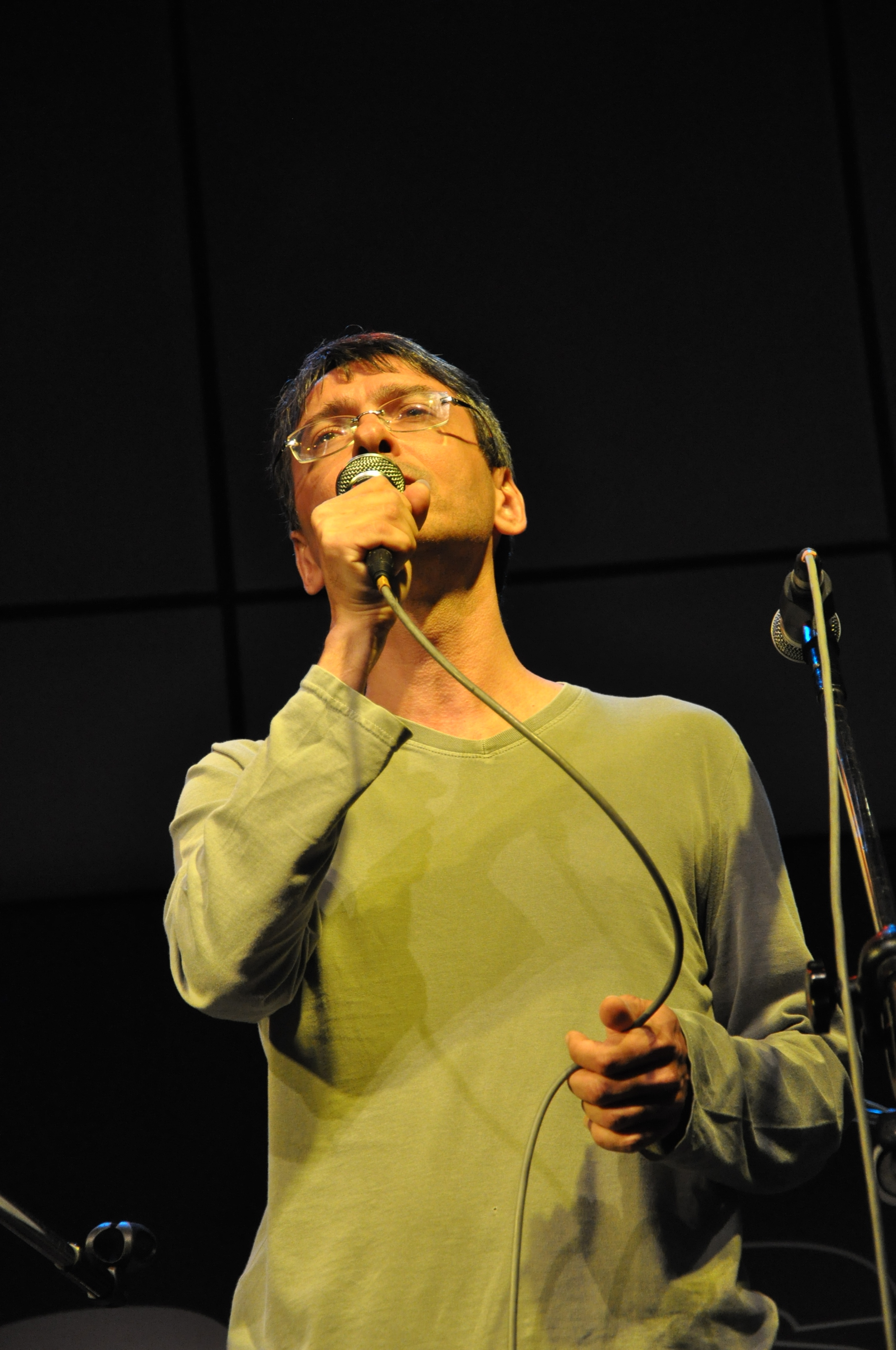 Beto Furquim singing in Sesc Consolação, São Paulo, Brazil, in June 10, 2010